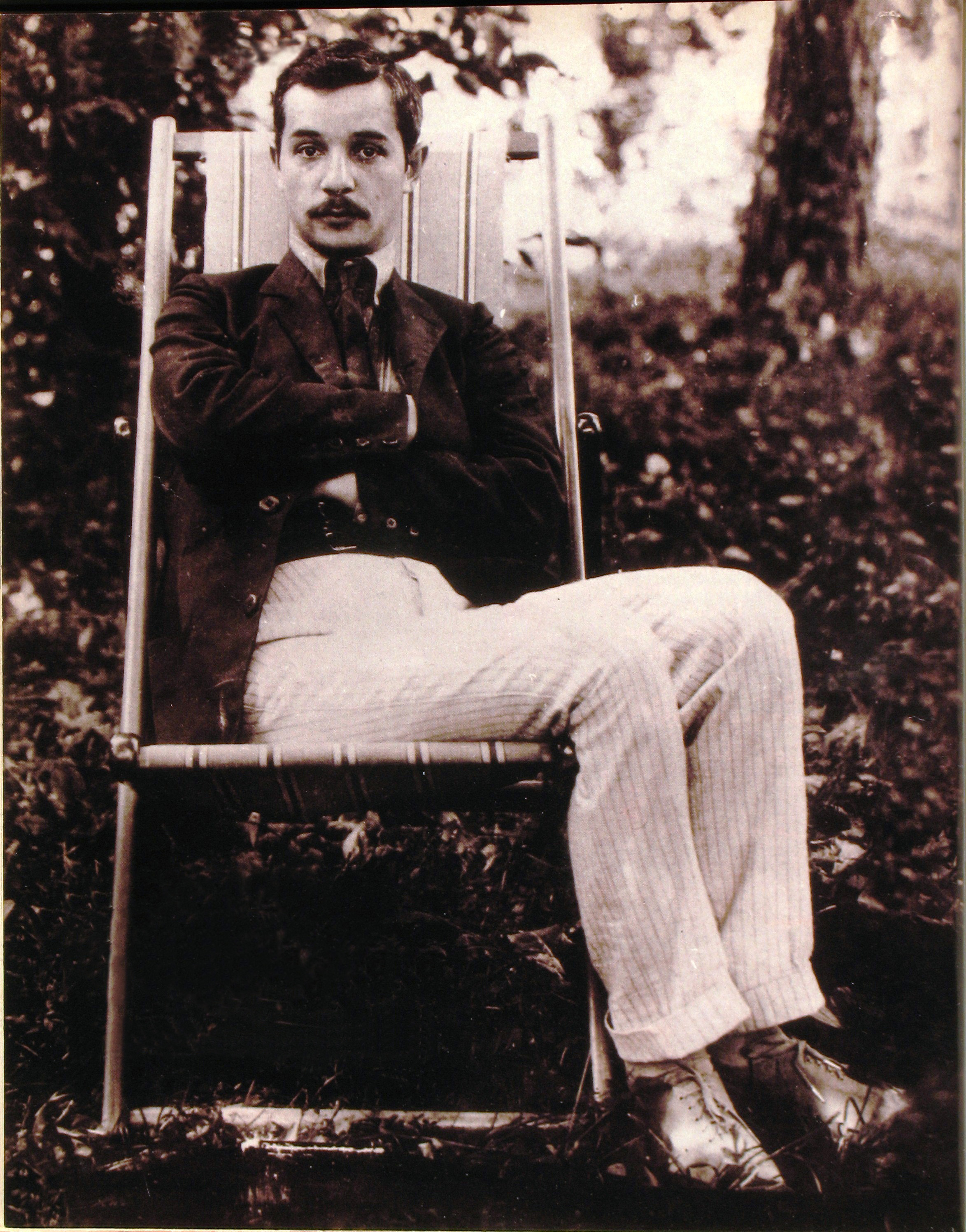 Russian poet Sasha Cherny.